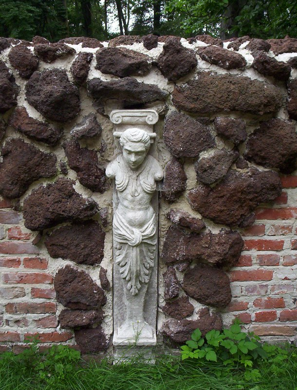 Part of Wall with Hermes - park in Arkadia, Poland. Example of usage of bog ore in architecture.